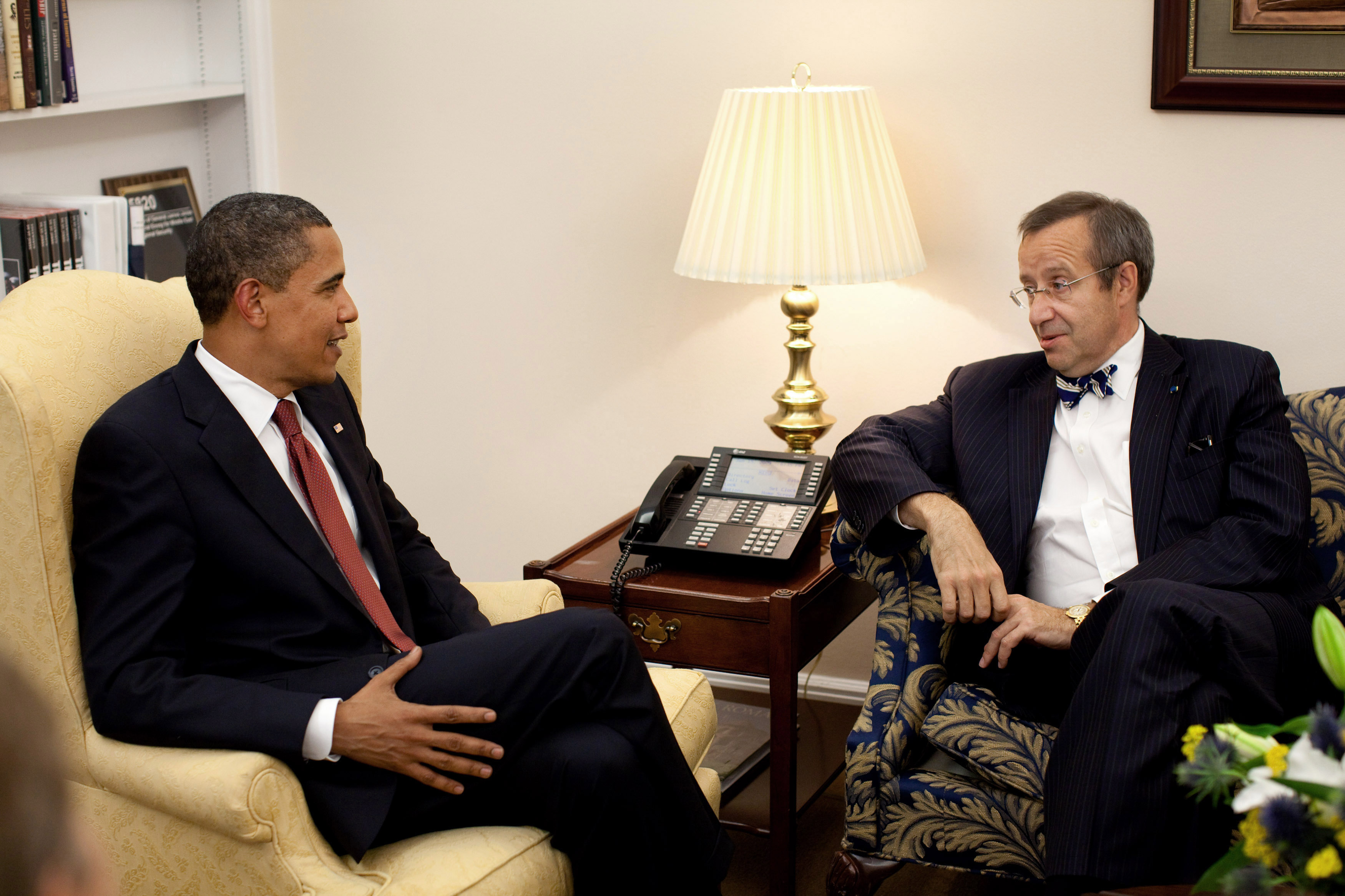 President Barack Obama meets with Estonian President Toomas Hendrik Ilves in the National Security Advisor's office in the White House Monday, June 15, 2009.